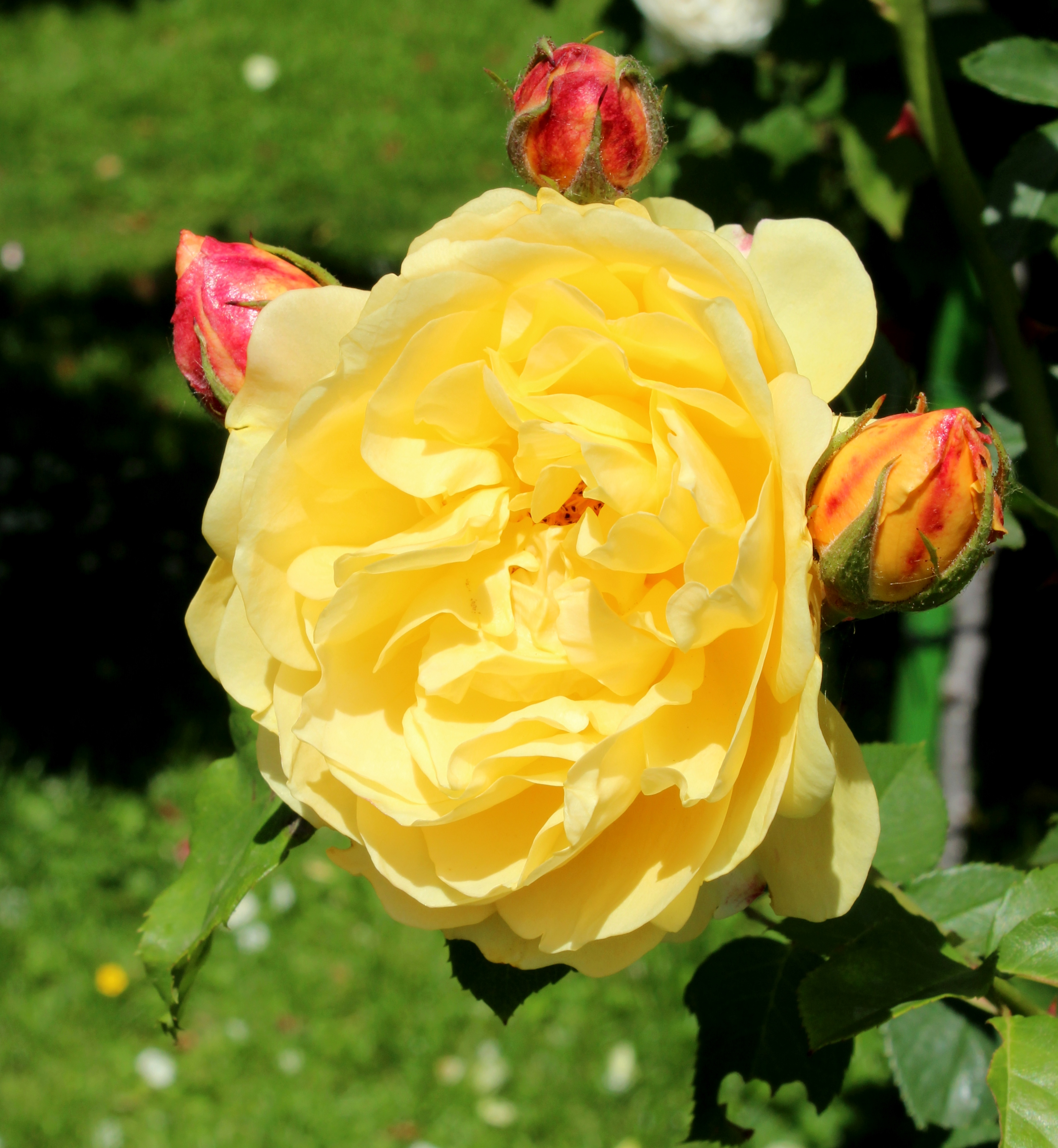 Rosa 'Happy Child' in the Volksgarten in Vienna. Identified by sign.